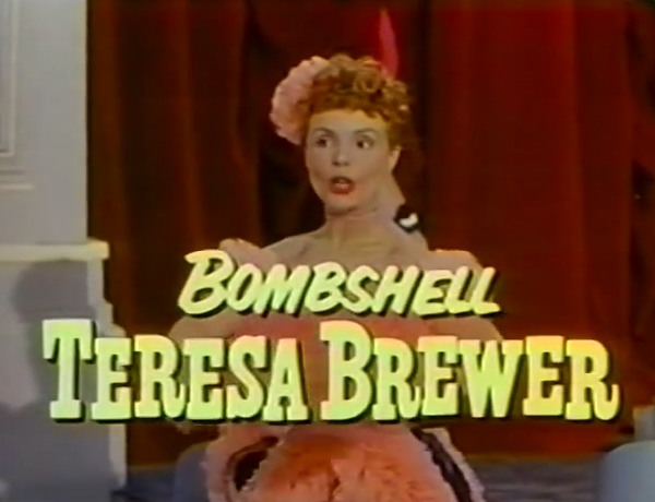 Cropped screenshot of Teresa Brewer from the trailer for the film Those Redheads From Seattle (1953).